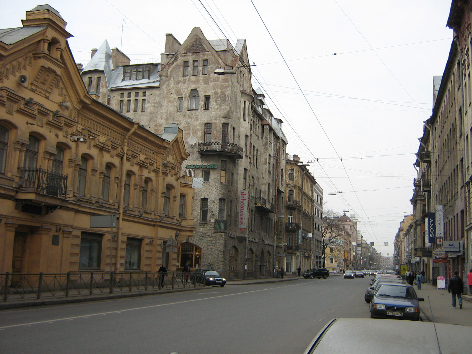 Bolshoi avenue of Petrogradsky district in Saint-Petersburg, Russia.